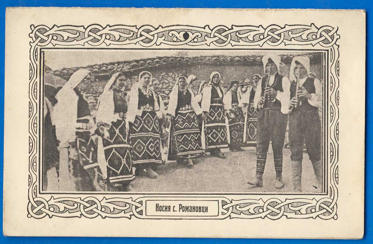 Pictures from postcard of Romanovci Charity Brotherhood Macedonia in Bulgaria